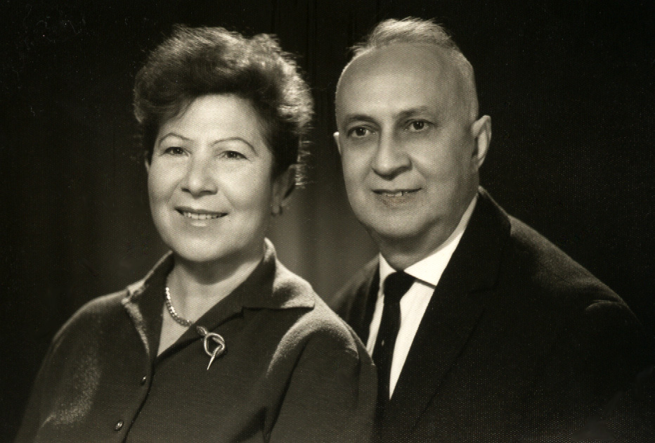 Yiddish writer, essayist and poet Yechiel Hofer (1906-1972) with his wife Chana